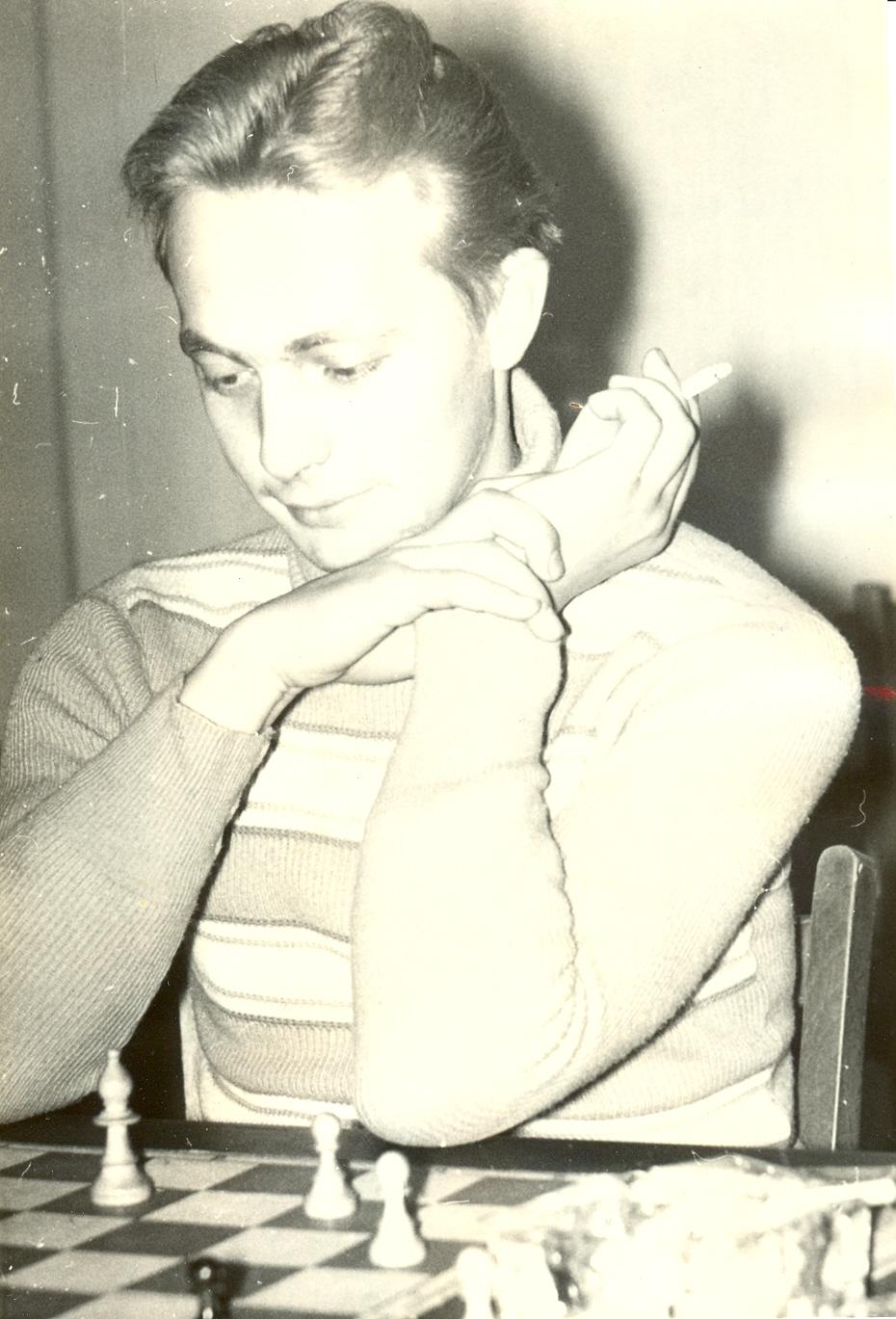 Rolf Richter (26.05.1941-14.01.1988) from Oederan (Saxonia), a German chess composer and chess player